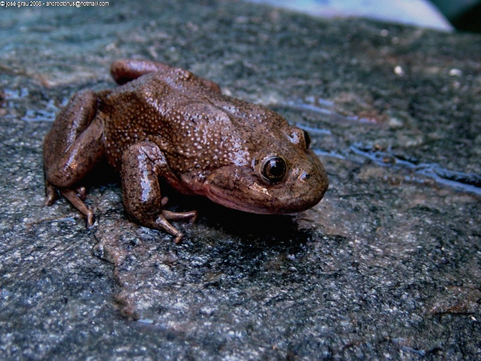 Telmatobius frog from northern Chile